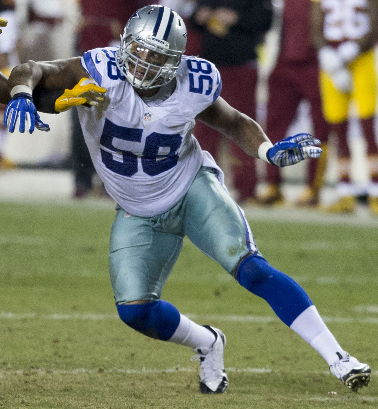 Cowboys at Redskins 12/7/15